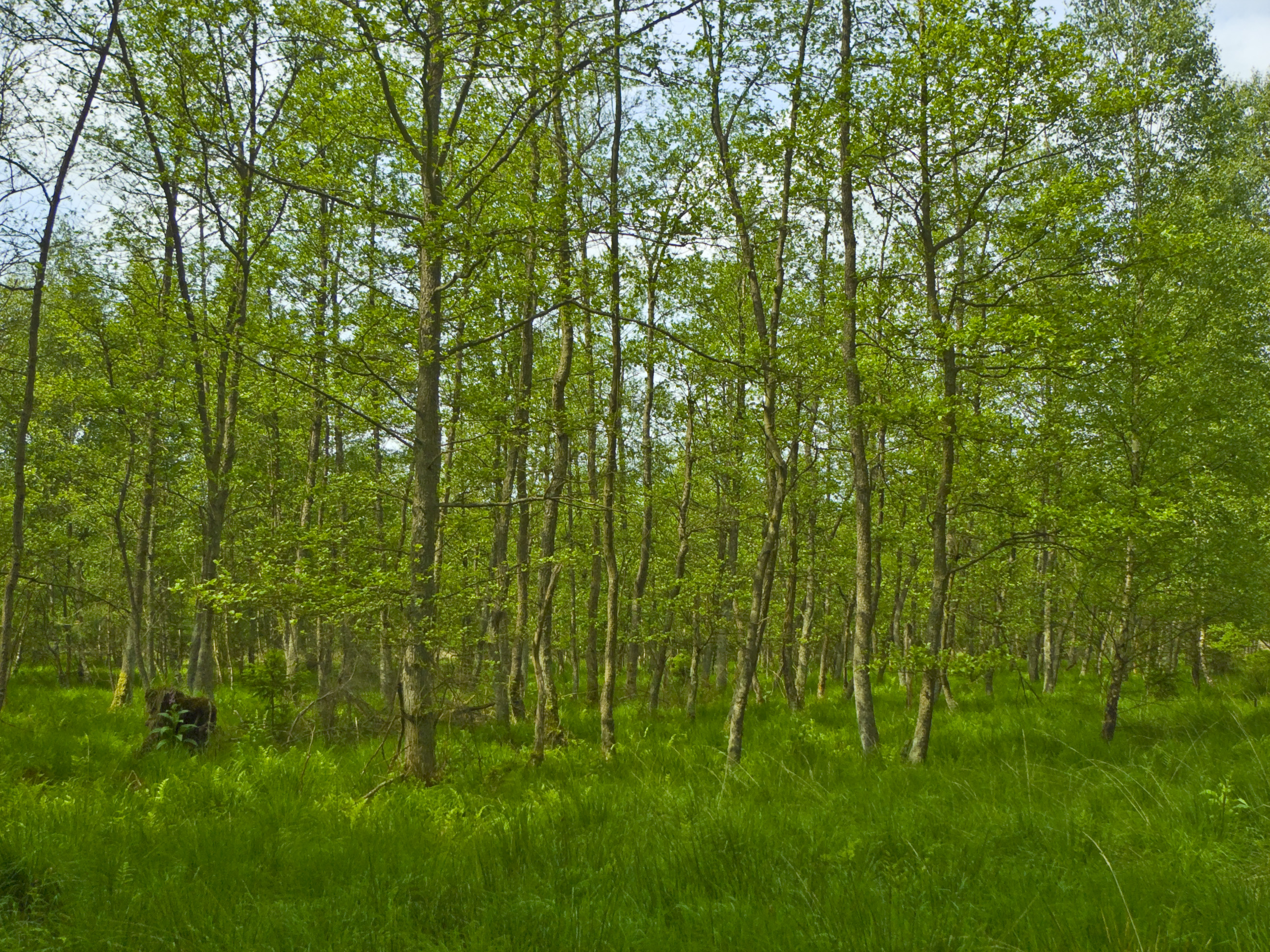 Alder forest (Alnus glutinosa) in the Burgwald, Hesse, Germany